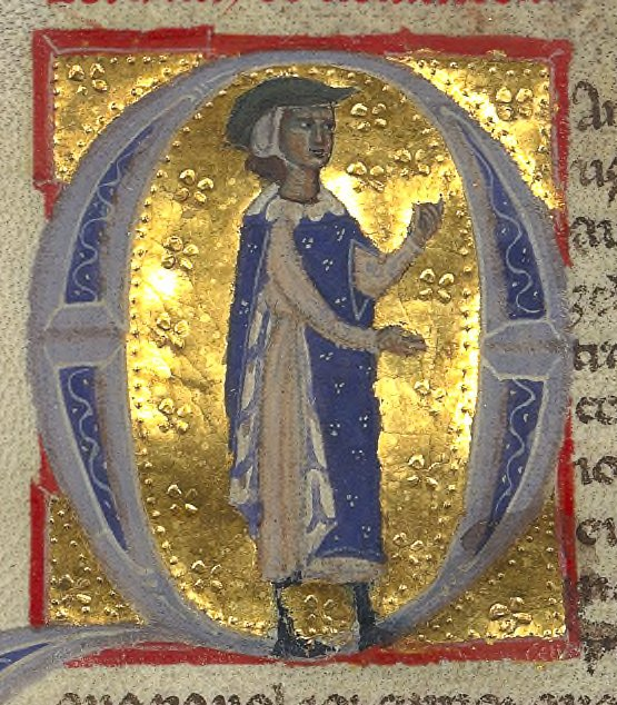 Bernard de Ventadour